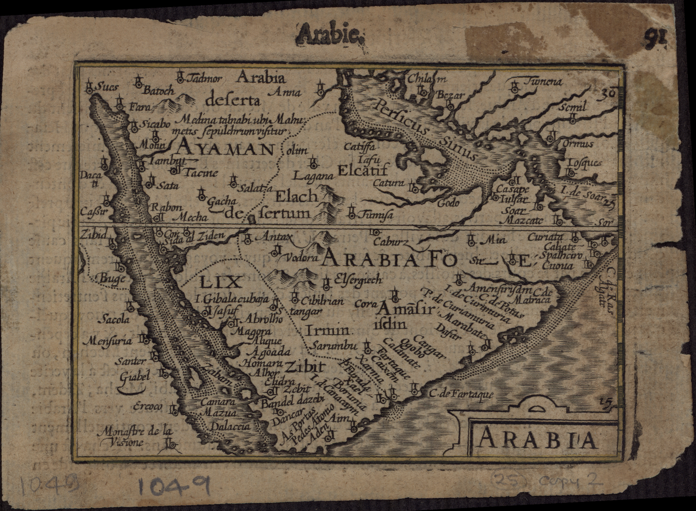 This 1616 map is a reprint of a map originally published in 1598 by Jodocus Hondius (1563-1612), a Flemish cartographer and engraver who settled in Amsterdam in about 1593 and established a business that produced globes and the first large maps of the world. The map covers the territory from west of the Gulf of Suez to the eastern side of the Arabian Peninsula, and from the mouth of the Euphrates River to Aden. The only cities indicated on the western coast of the Persian or Arabian Gulf are Qatar (“Catara”), “Godo,” and “Catiffa.” The map shows sandbanks around the coast and rivers at Medina and Mecca. Few towns and regions are shown, and there is a range of mountains in the center of the peninsula. Al Qatif is repeated as the town “Catiffa” and the region “Elcatif.” The peninsula opposite Bahrain Island, shown unnamed, is marked as where “Catara” is found. The commonly noted rivers of the Arabian coast are shown as very close together. The Arabian Gulf is called “Persicus Sinus” (Persian Gulf) and there is no name given for the Red Sea. The Ayaman area is shown as the most populated area on the map. The cartographer uses castles to denote cities and dotted lines to show the division of the Arabian Peninsula into three parts. Arabian Gulf; Arabian Peninsula; Persian Gulf